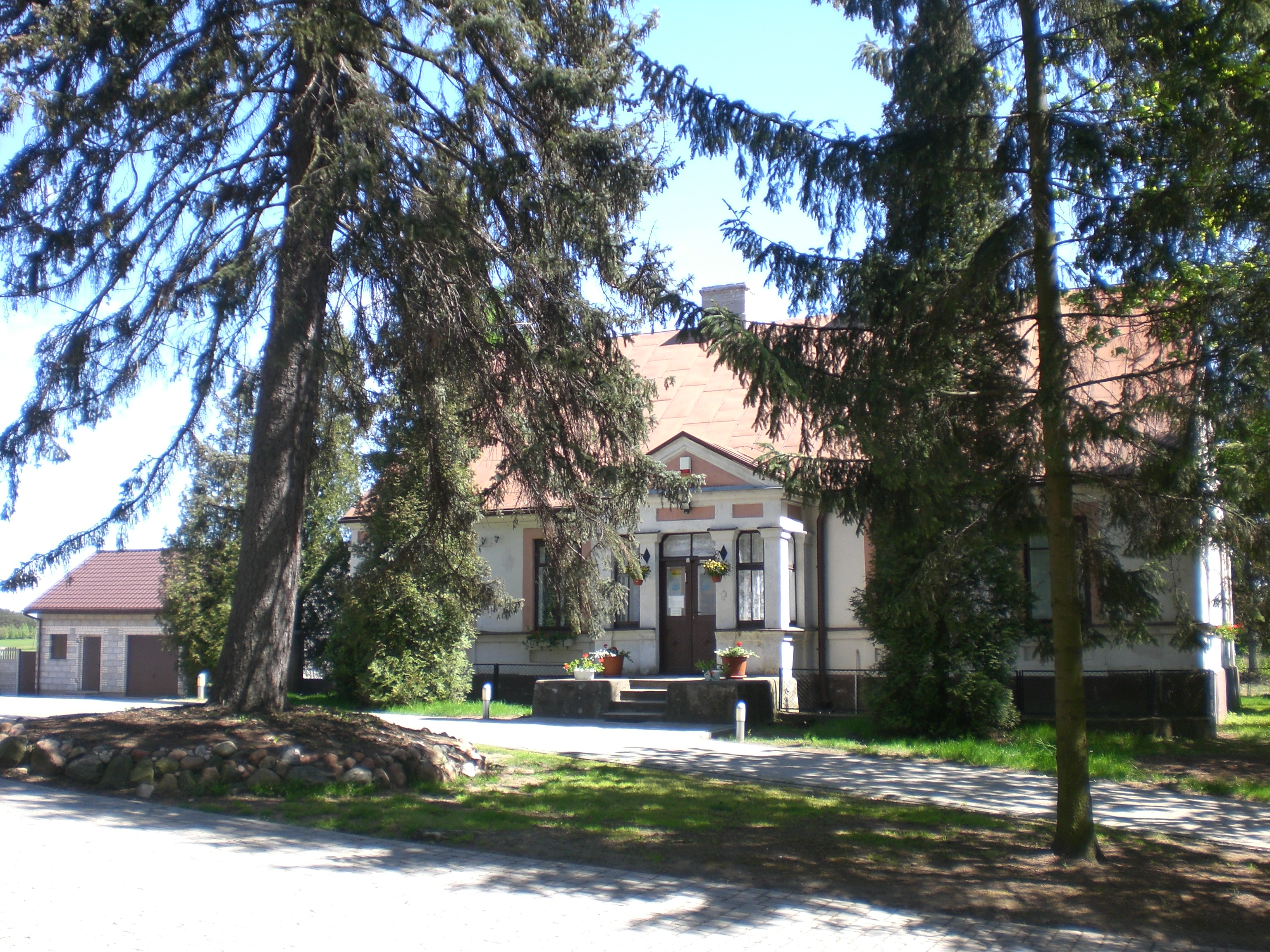 Manor in Kobylniki, Masovian Voivodeship